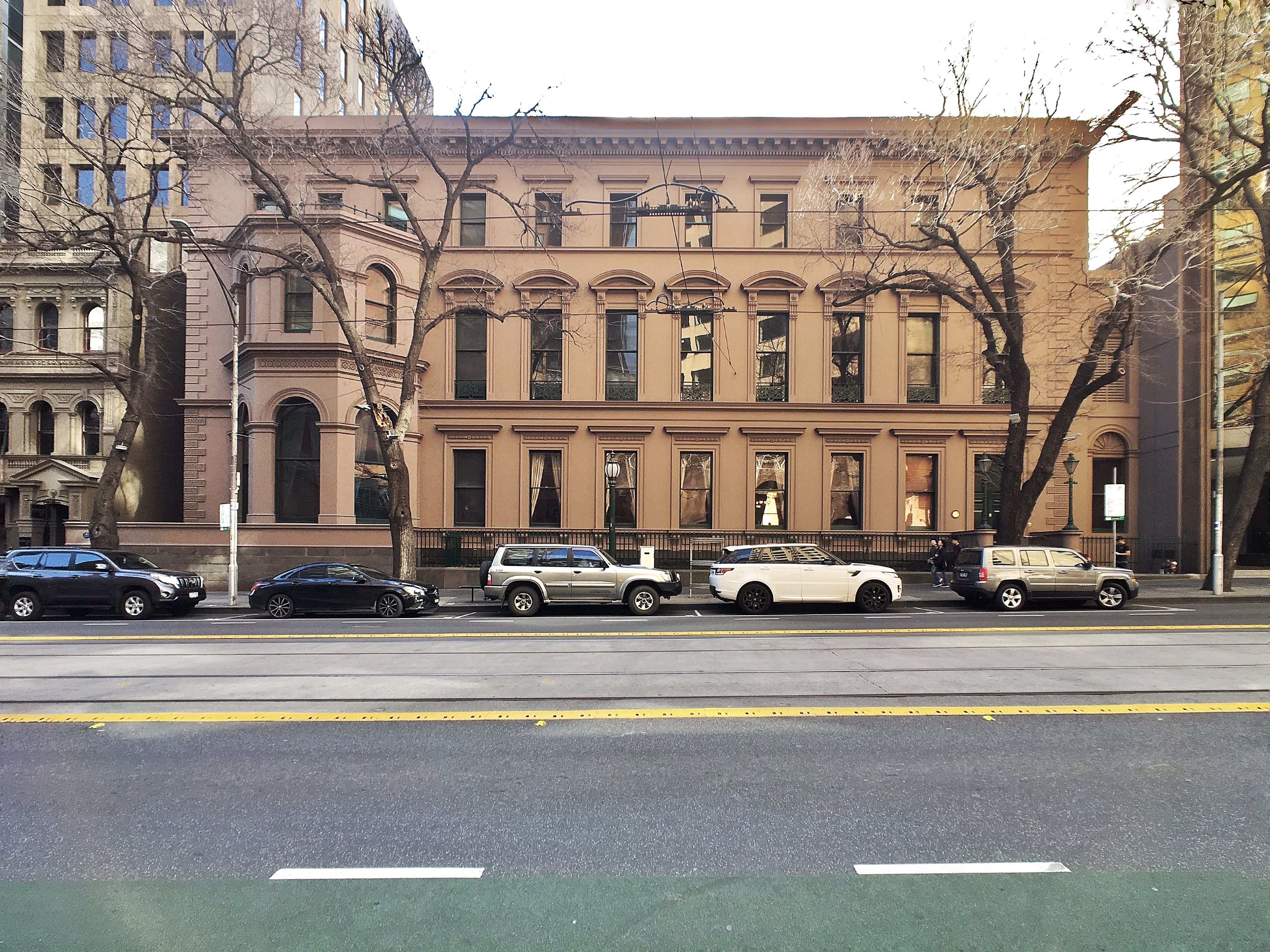 Melbouren Club Collins Street in 2018